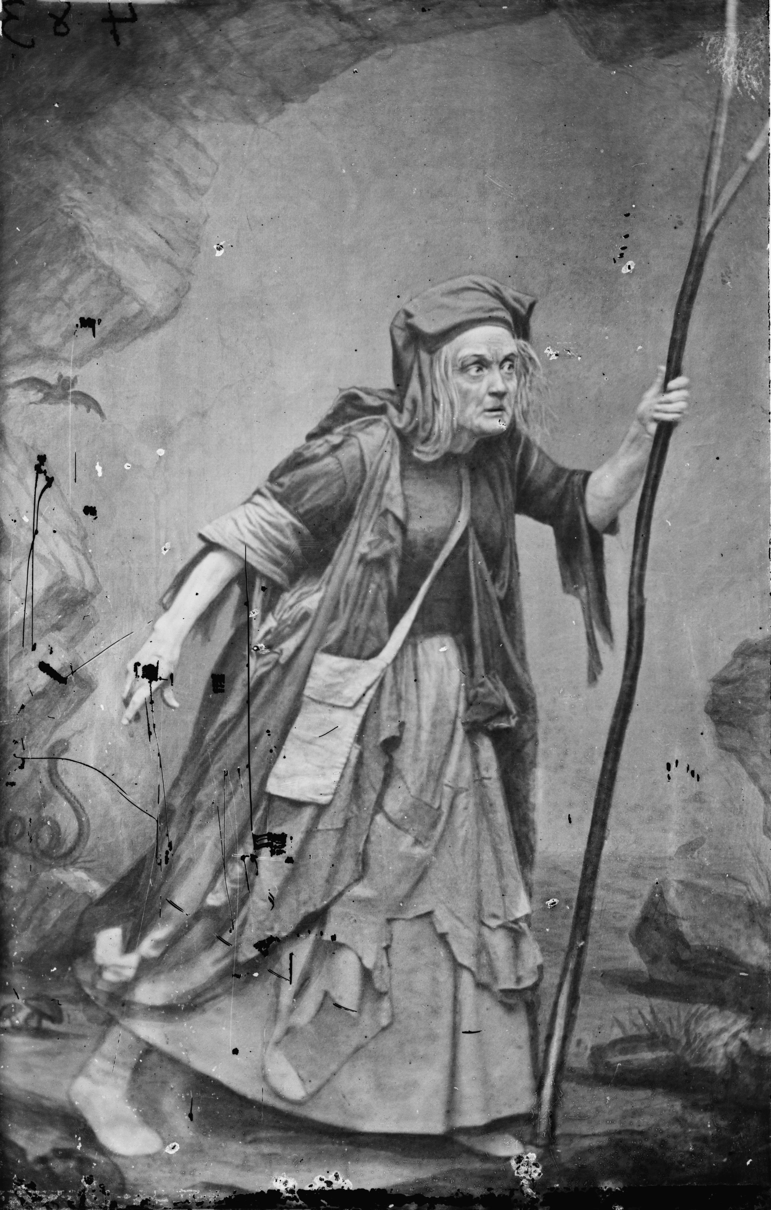 Charlotte Saunders Cushman (1816-1876). Library of Congress description: "Charlotte Cushman as Meg Merriles"